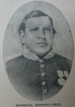 Serapio Cruz, Guatemalan Marshall